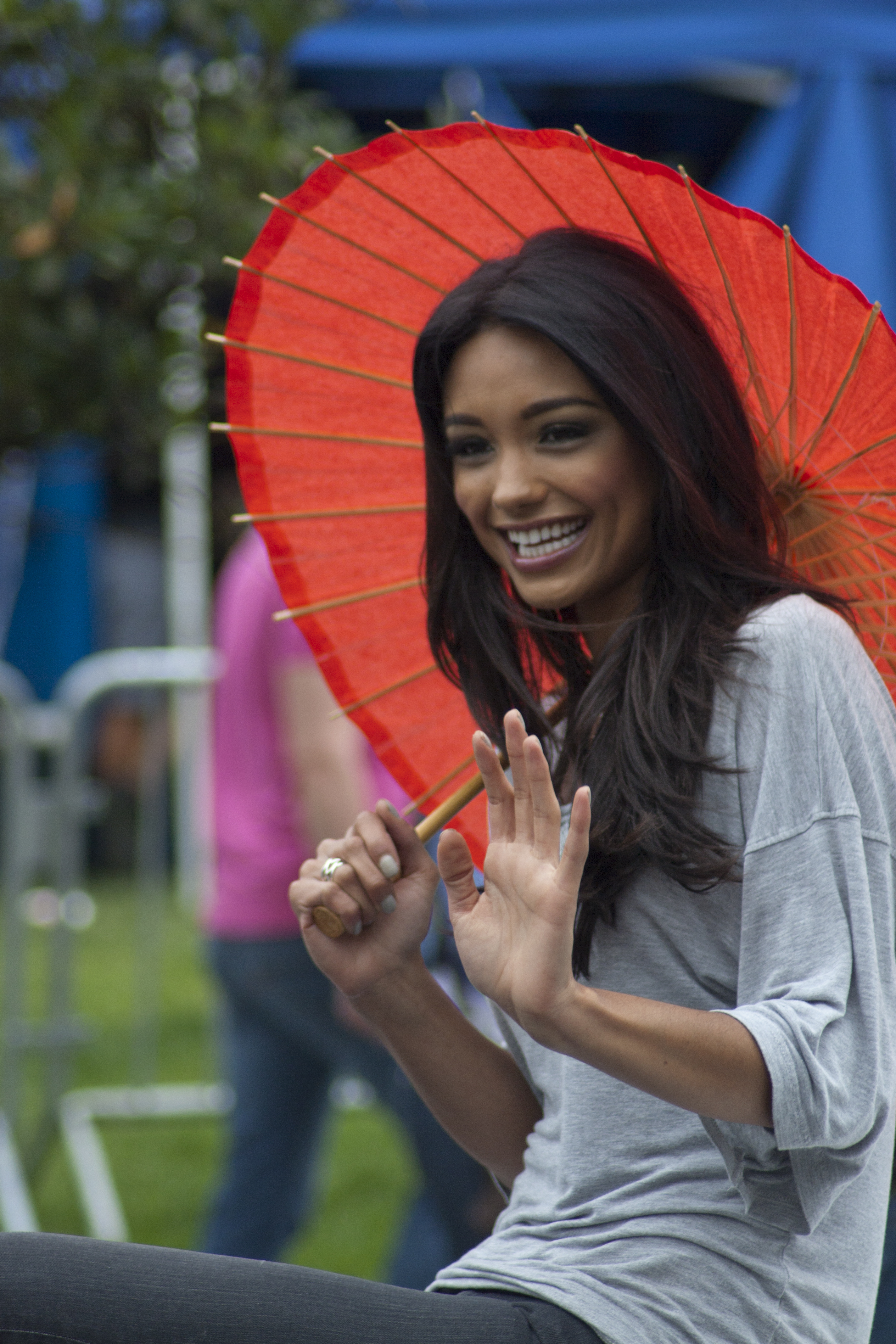 Rachel Smith at Los Angeles Pride 2011 (June 12).